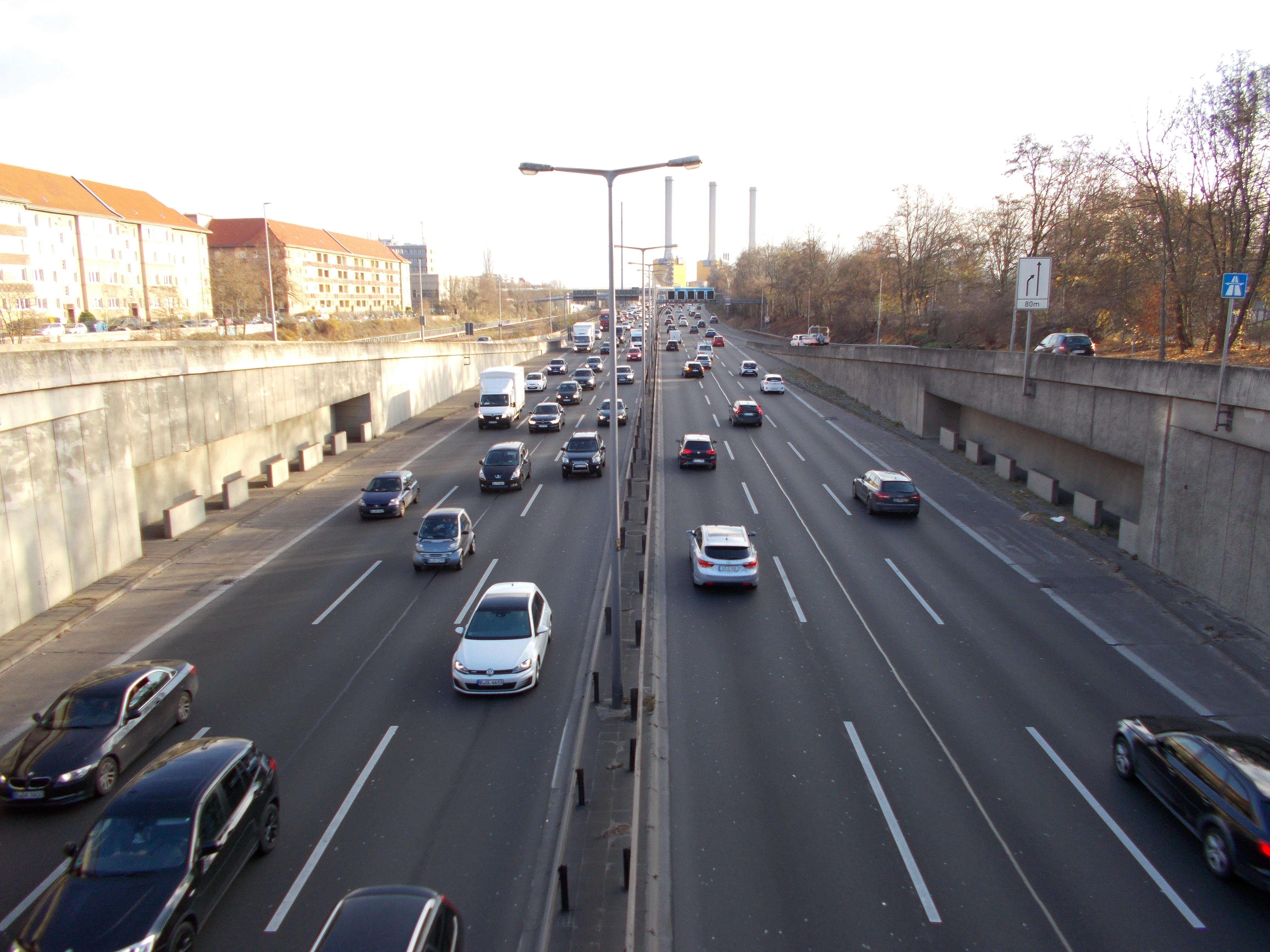 Former Bus stop on the highway A 100 in Berlin, Hohenzollerndamm